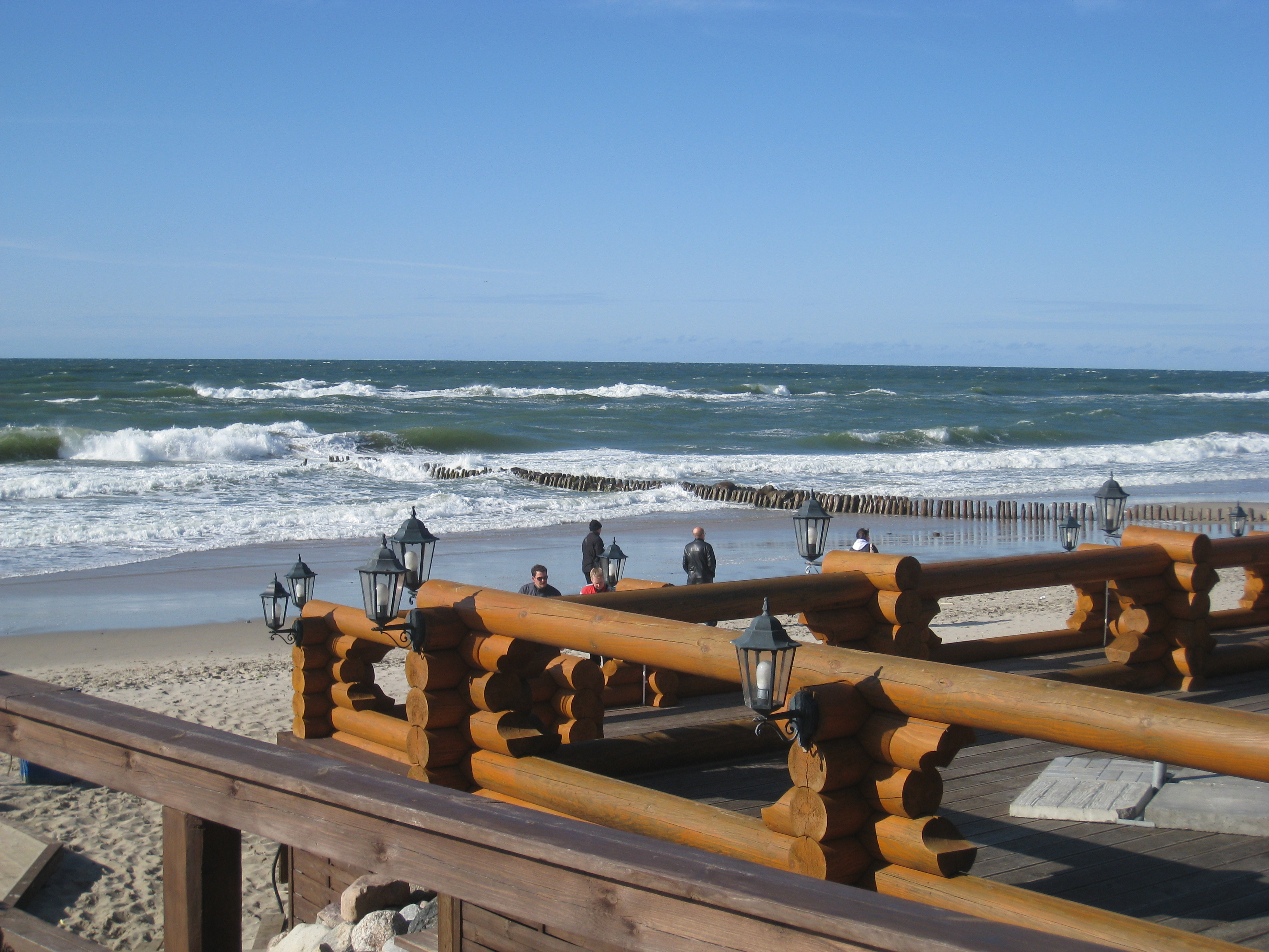 sea shore